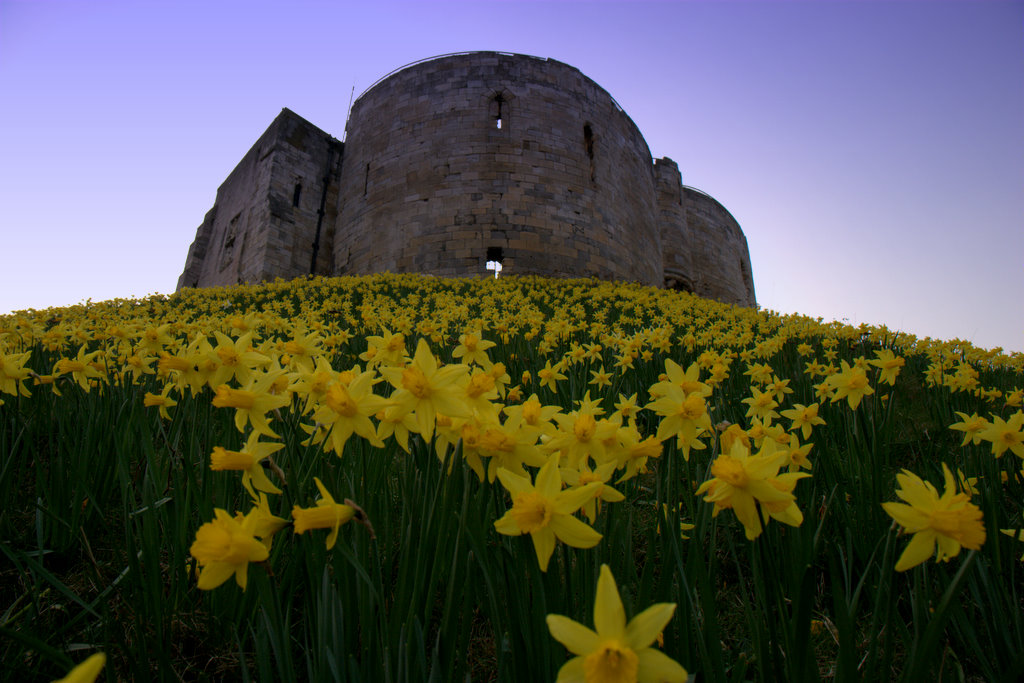 Clifford's Tower with daffodils on the slope of the motte